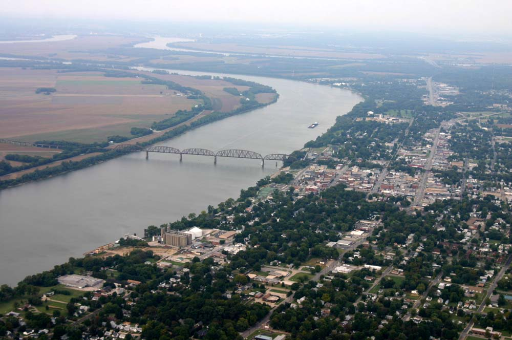 Areial View Of South Henderson